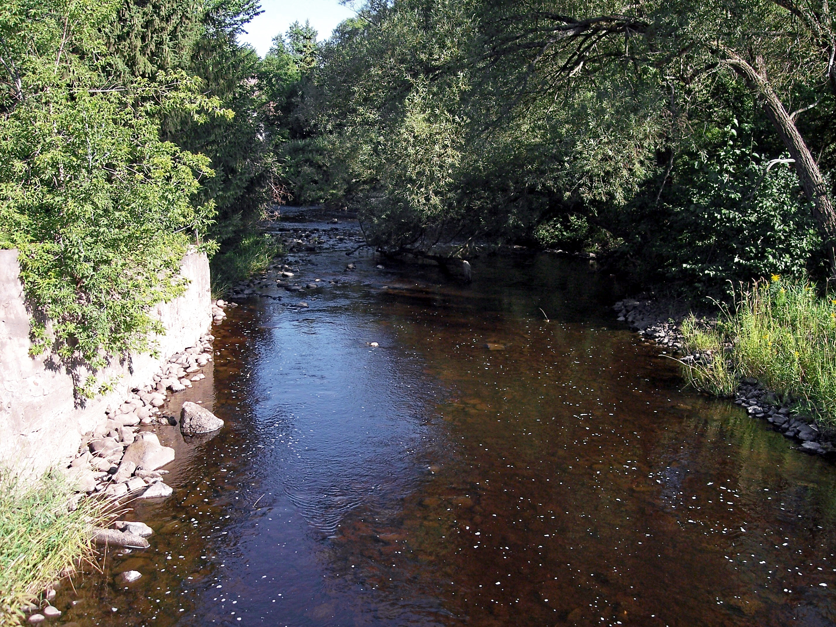 The Montreal River as viewed downstream from Silver Street between Hurley, Wisconsin (left) and Ironwood, Michigan (right).